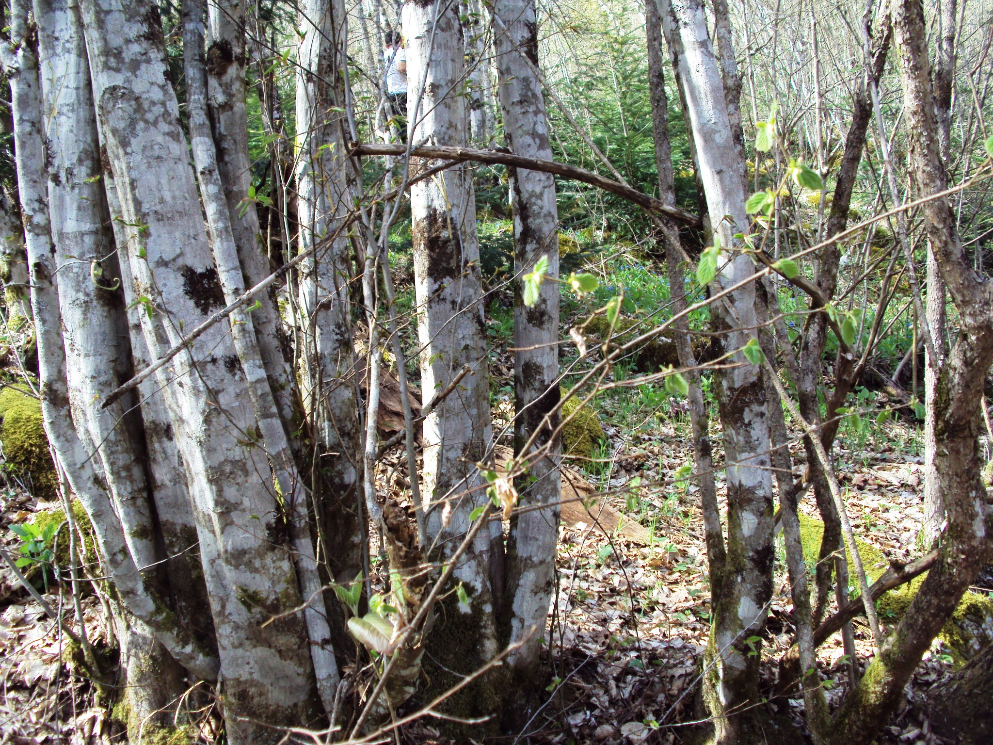 Carpinus betulus, Švica, Croatia